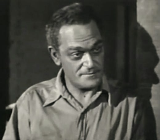 Joe De Santis in the TV series The Court of Last Resort, episode The Mary Morales Case - cropped screenshot